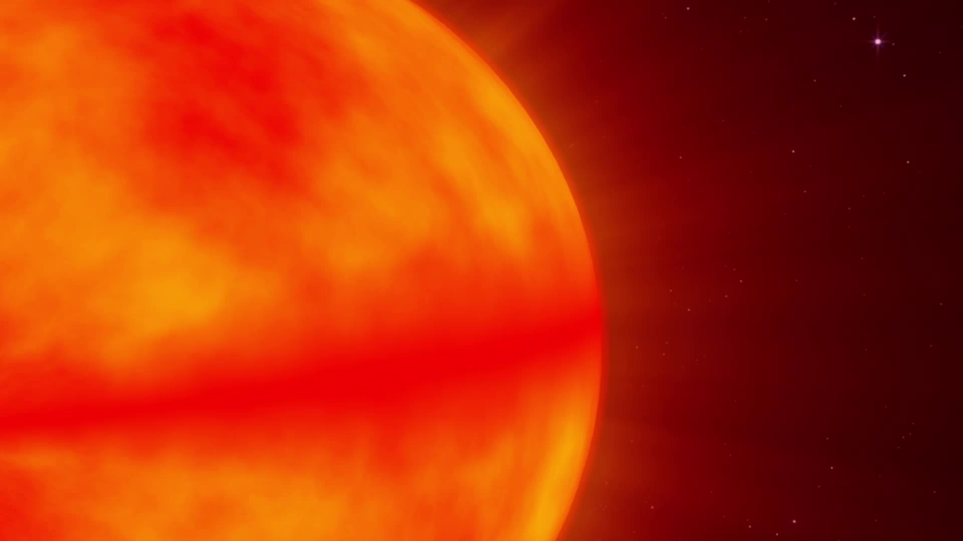 On June 15, NASA's Swift caught the onset of a rare X-ray outburst from a stellar-mass black hole in the binary system V404 Cygni. Astronomers around the world are watching the event. In this system, a stream of gas from a star much like the sun flows toward a 10 solar mass black hole. Instead of spiraling toward the black hole, the gas accumulates in an accretion disk around it. Every couple of decades, the disk switches into a state that sends the gas rushing inward, starting a new outburst. Read more: Credits: NASA's Goddard Space Flight Center Download this video in HD formats from NASA Goddard's Scientific Visualization Studio